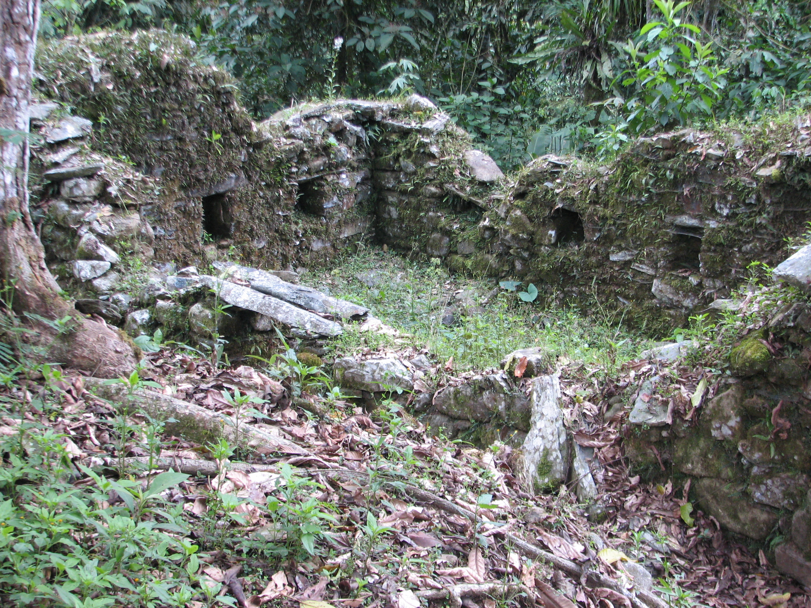 Espiritu Pampa Archaeological site (overgrown house)